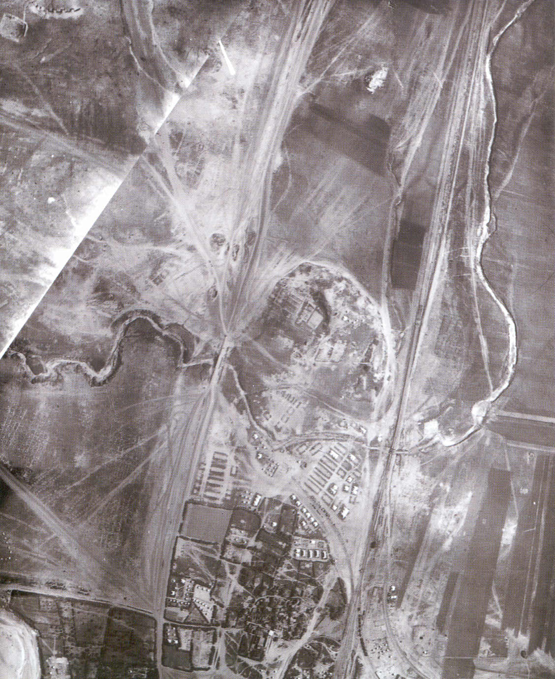 Dayr Sunayd-1918